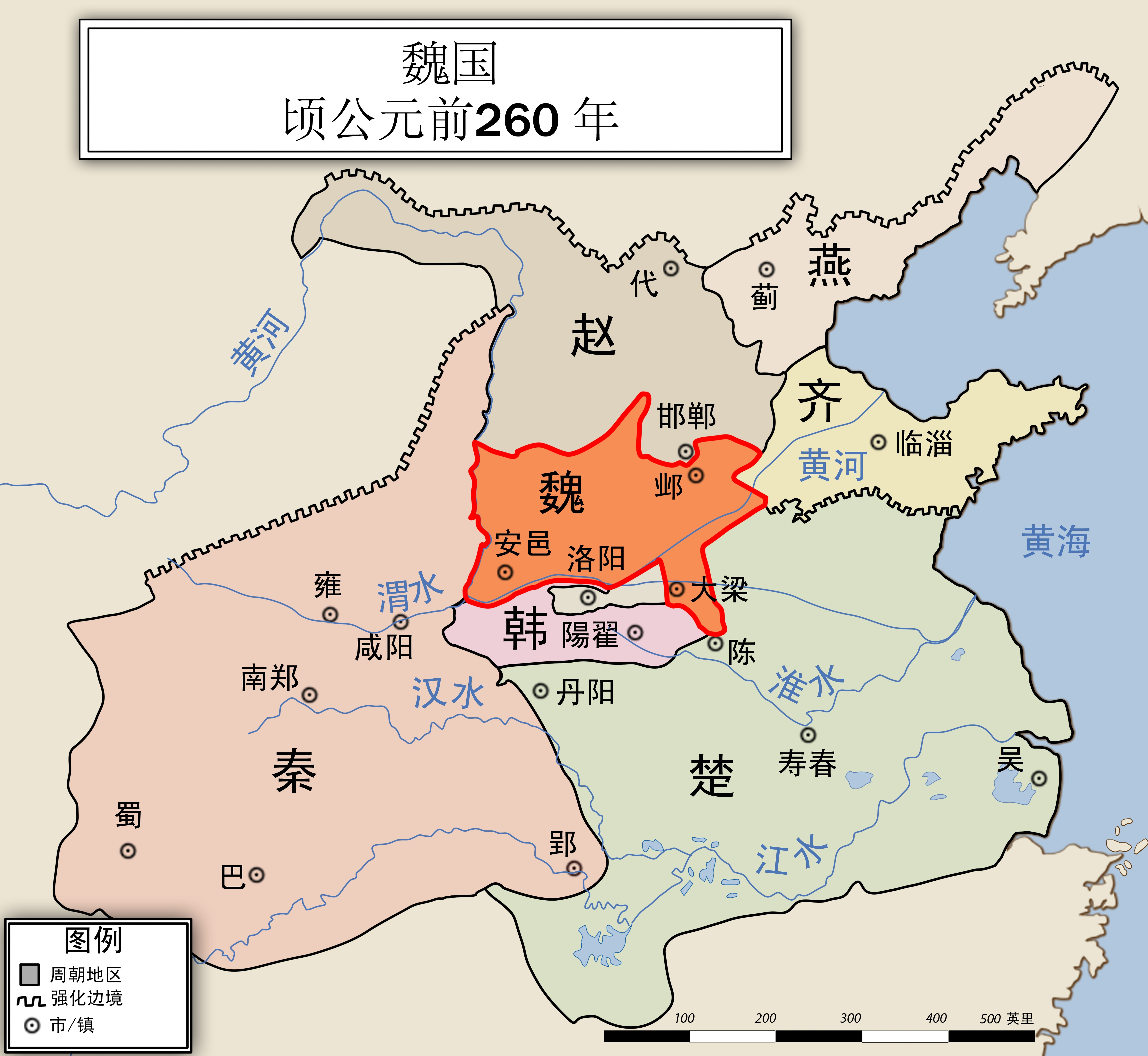 China Map, Wei State, 260BCE